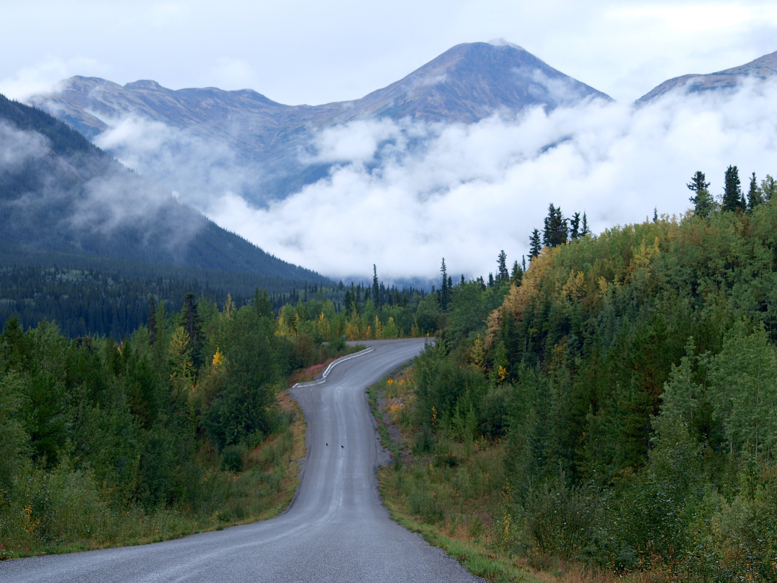 Two ravens on the road in the distance looking for roadkill. Low clouds mist the mountains near Good Hope Lake B.C. People said they wanted to see the original of previous shot in large and in black so click on this to have that view. 0ff to Whitehorse Yukon today to do some mortgage paperwork... 5 hr drive to sign banking renewal papers... welcome to northern living.